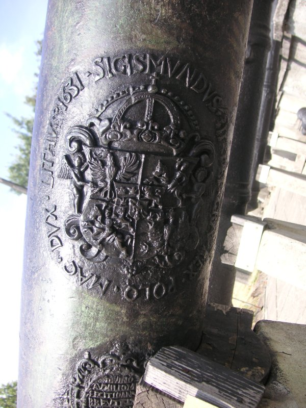 Coat of Arms of king Sigismund III of Poland, as featured on a gun he ordered and financed.